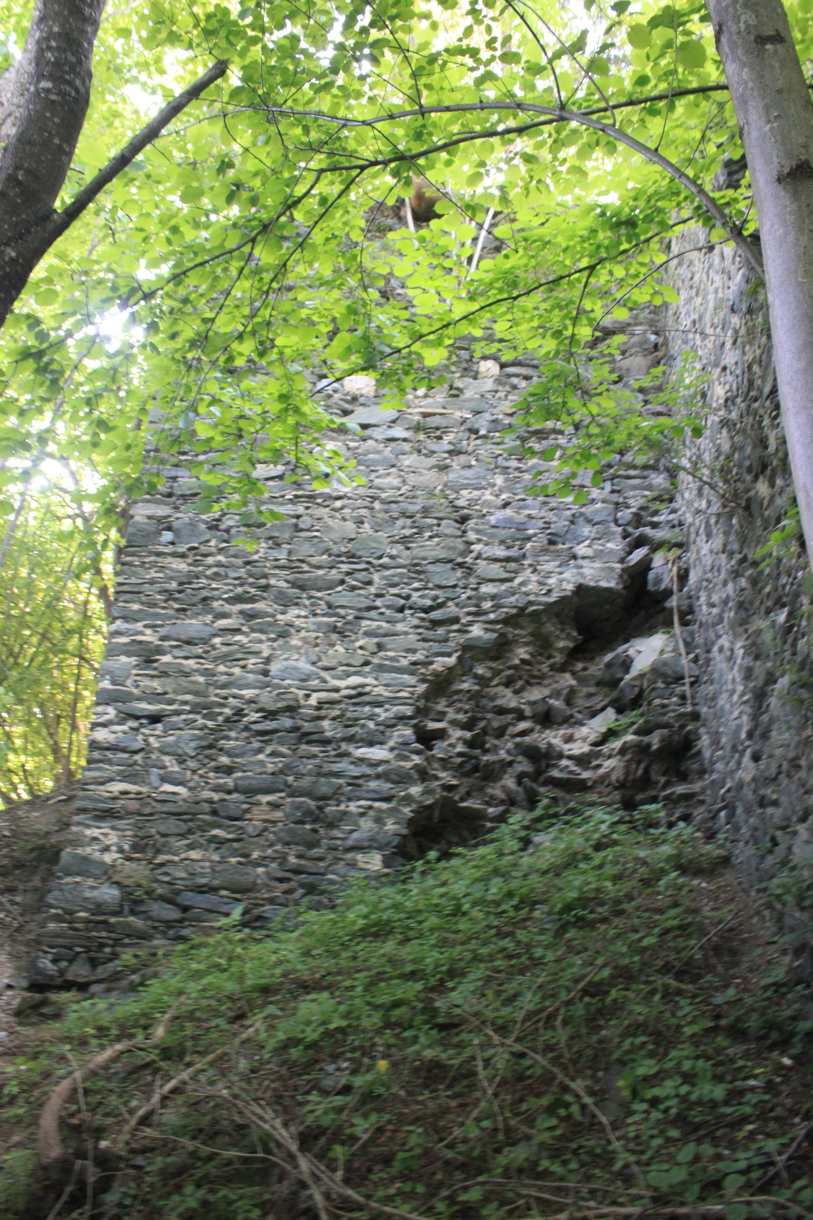 Castle ruined